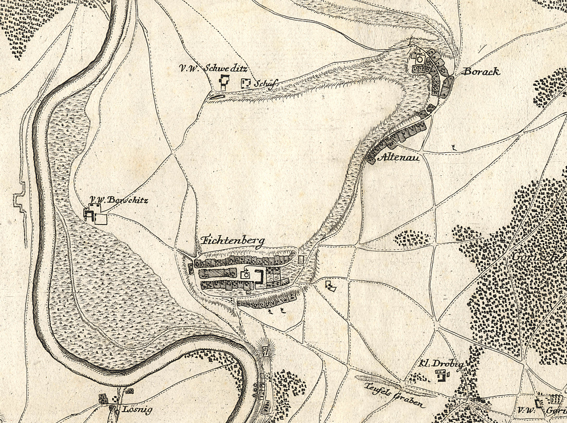 view of Fichtenberg (from part Strehla) of the map "Situations und Cabinets=Carte von einem anderen Teile des Churfürstentums Sachsen" Major Isaak Jacob von Petri